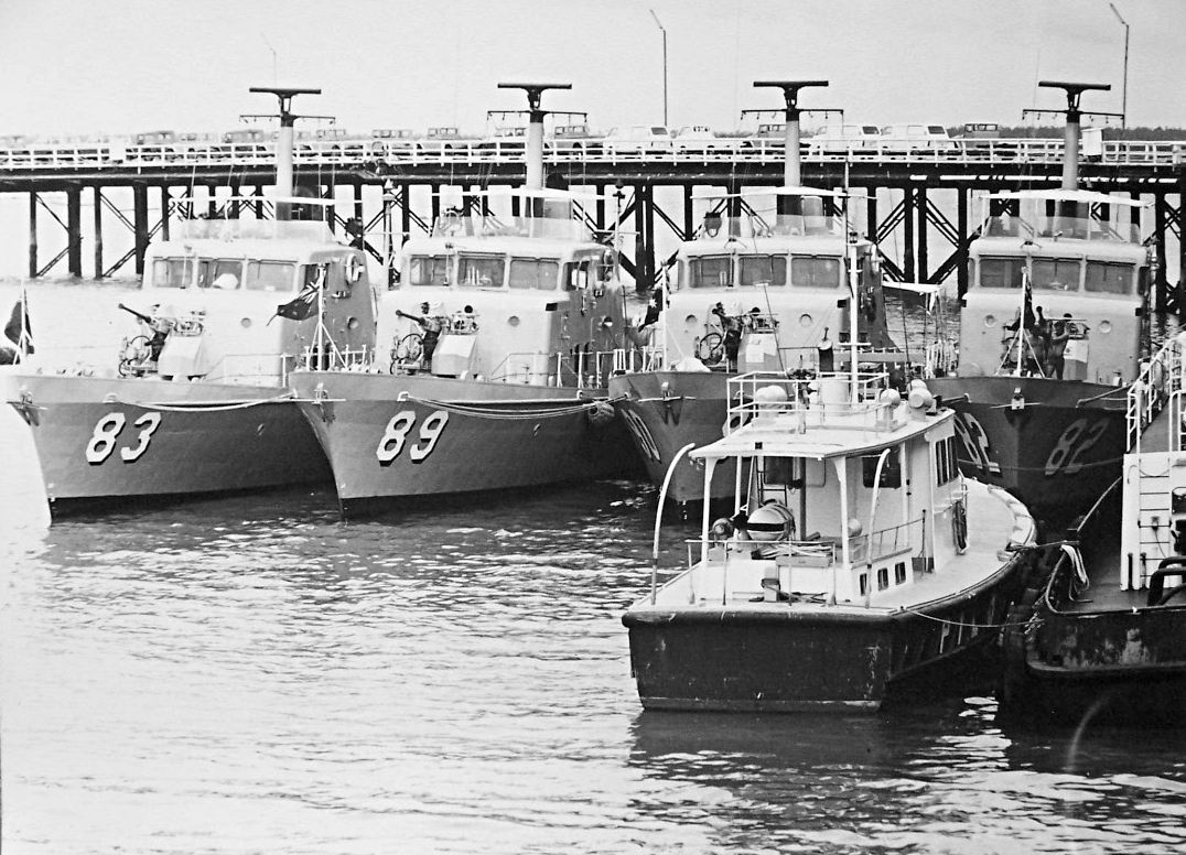 Photograph of Attack class patrol boats HMAS Advance (P 83), HMAS Assail (P 89), HMAS Attack (P 90) and HMAS Adroit (P 82) at Stokes Hill Wharf, Darwin March 1975 (after Cyclone Tracy).